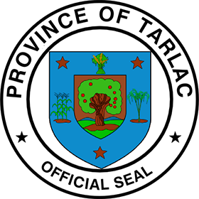 Provincial seal of Tarlac, Philippines.